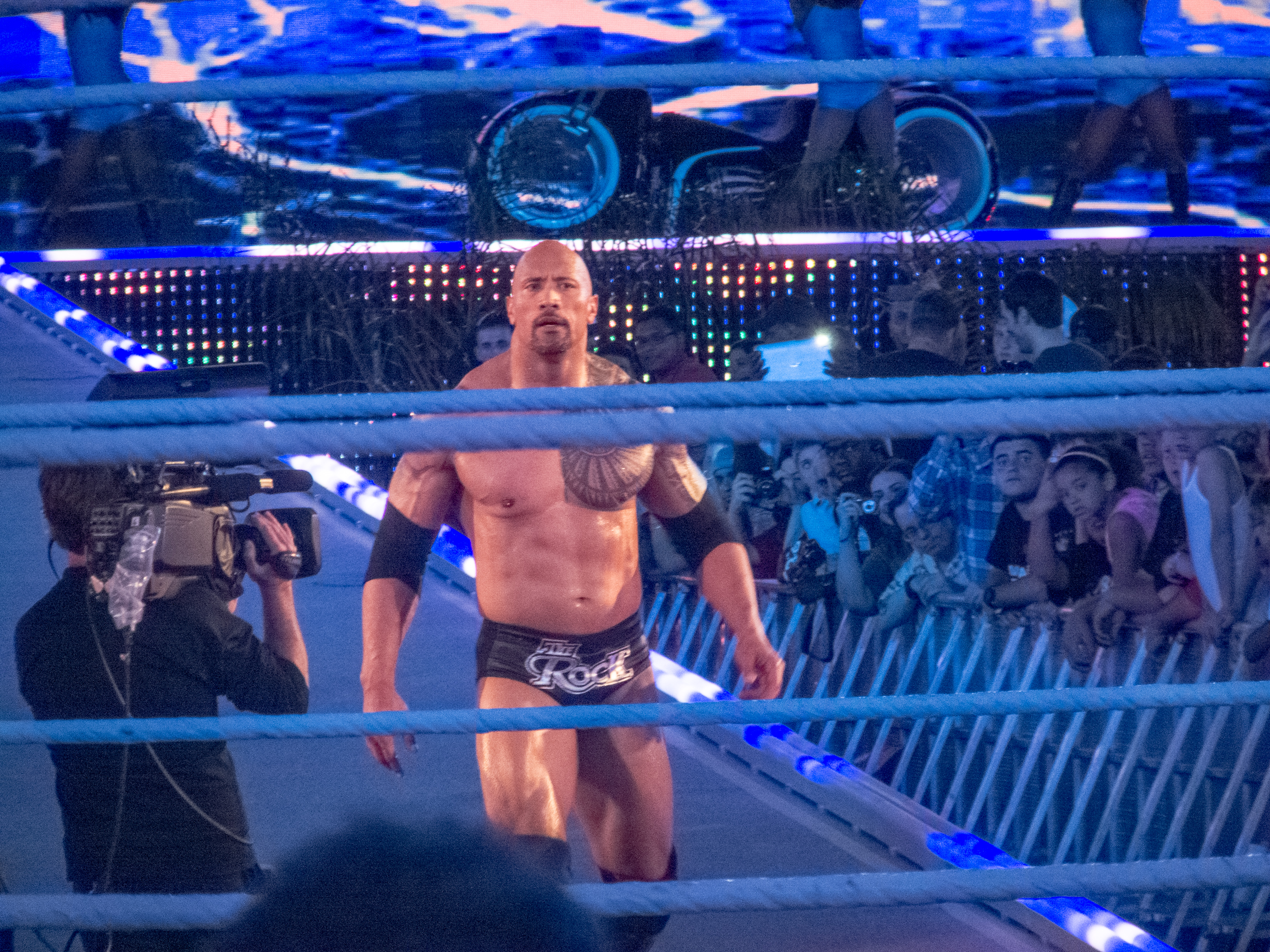 WWE Wrestlemania 28 - The Rock vs John Cena